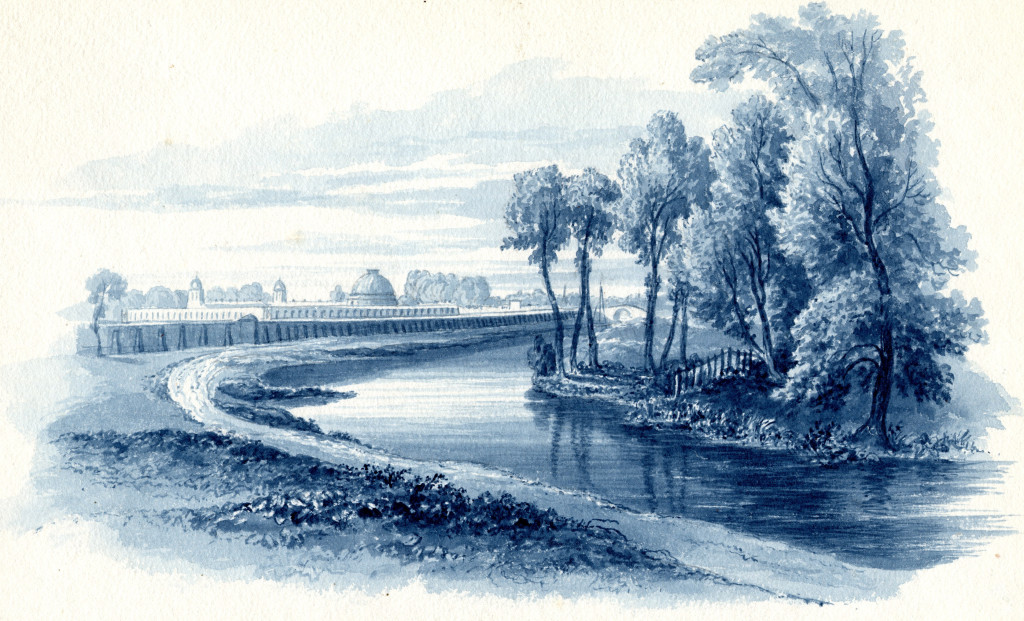 brompton-cemetery-15c and Kensington Canal by William Cowen (18 June, 1791 – 29 January, 1864) a Rotherham born landscape painter.